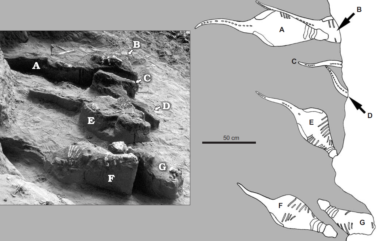 Ankylosaurid dinosaur Pinacosaurus from Upper Cretaceous of Bayan Mandahu, China (all specimens in IVPP). Oblique photograph of the Canada−China Dinosaur Project quarry in 1990 at Bayan Mandahu, China. Left: Quarry diagram showing the align − ment of juvenile skeletons, all of which were upright with limbs positioned underneath their bodies.